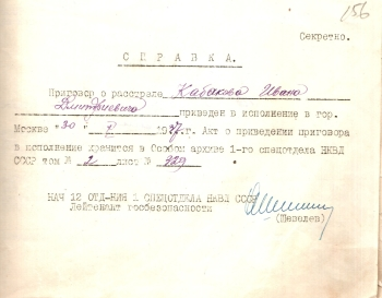 Reference notice on the death of Kabakov Ivan Dmitrievich